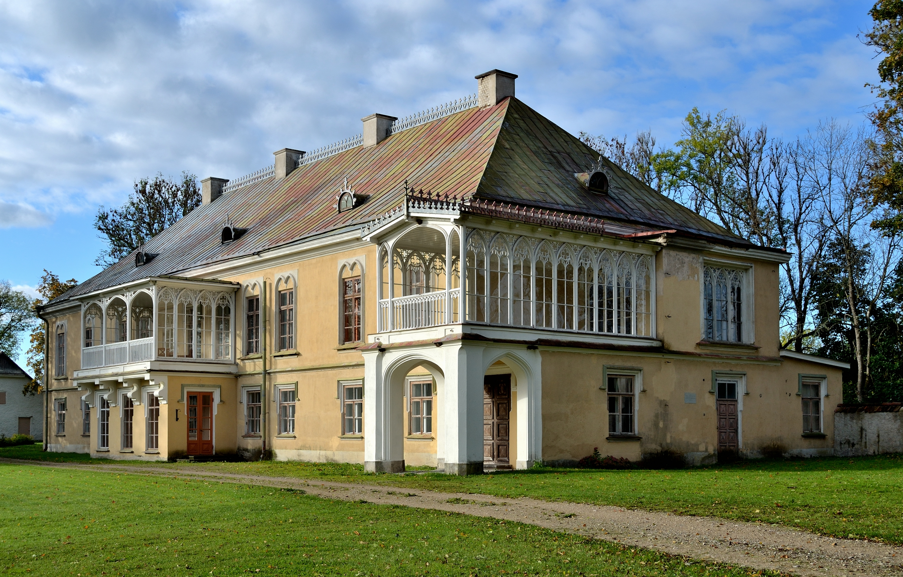 Lohu manor main building. Probably built during the second half of the 18th century.